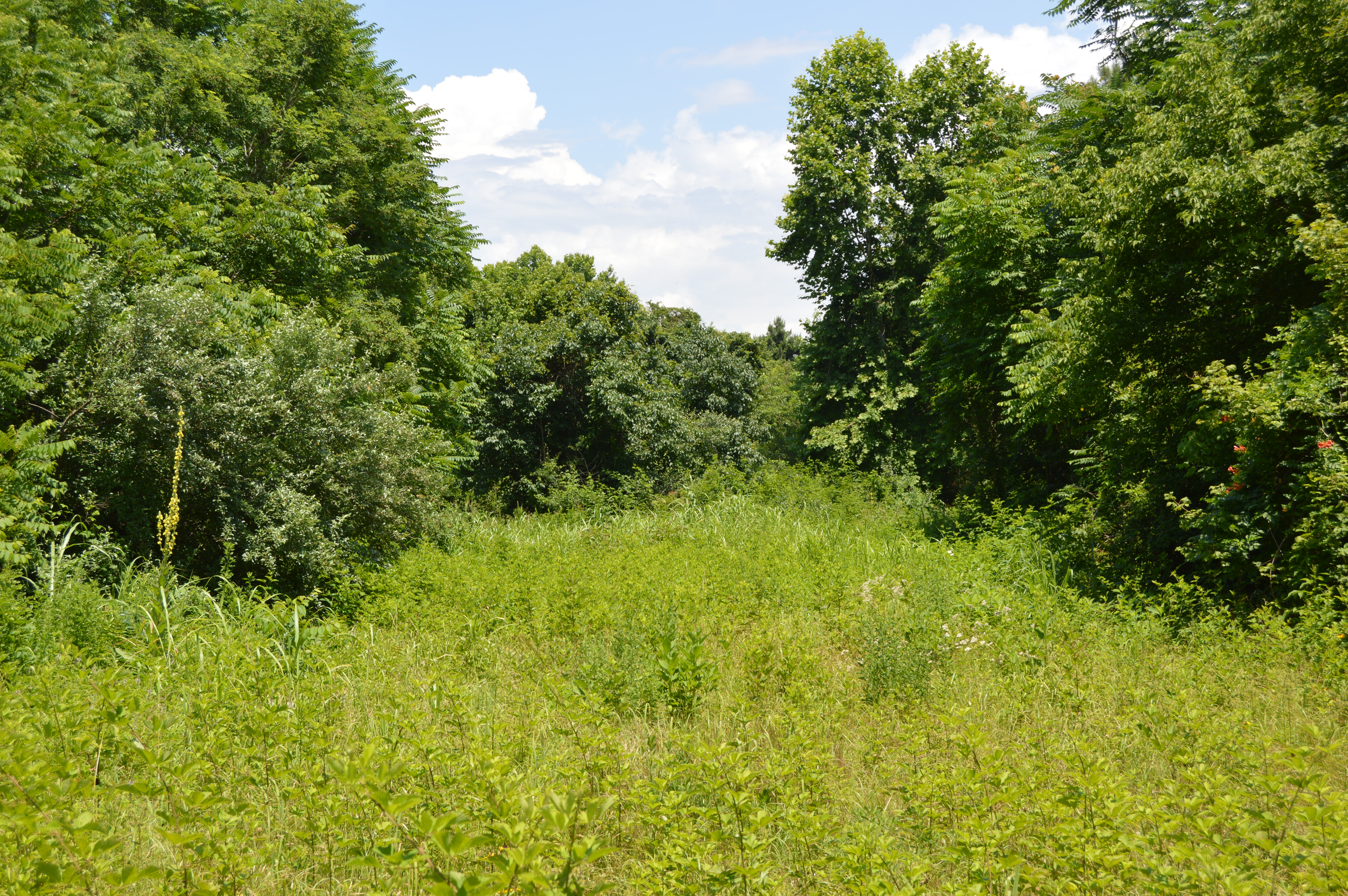 A field in the Dick Cross Wildlife Management Area, just above the confluence of Allen Creek and the Roanoke River, in Mecklenburg County, Virginia, United States. This is the major Woodland-period archaeological site known as the Elm Hill Archaeological Site; it is listed on the National Register of Historic Places.